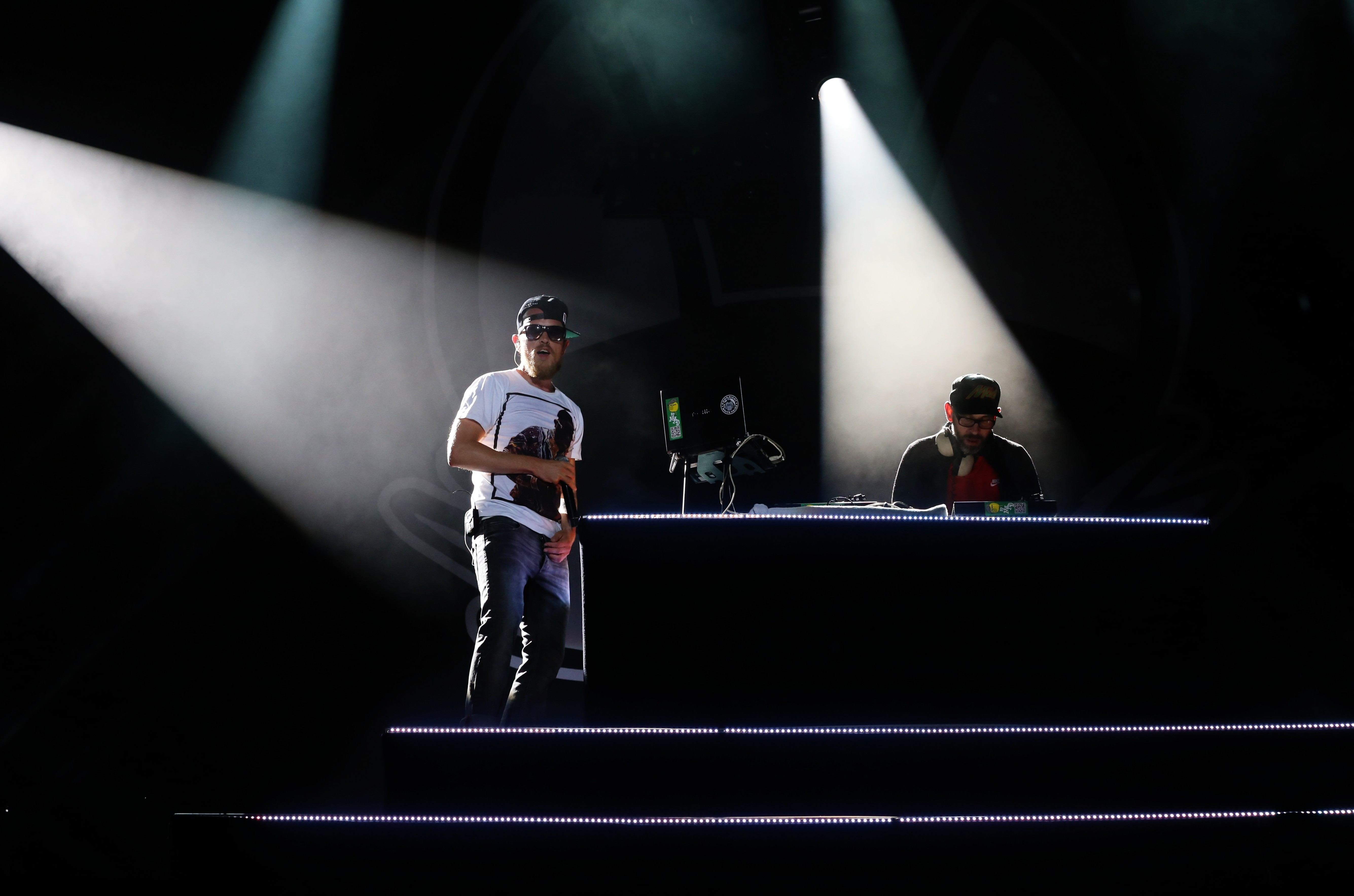 Beginner at Chiemsee Reggae Summer Festival 2013